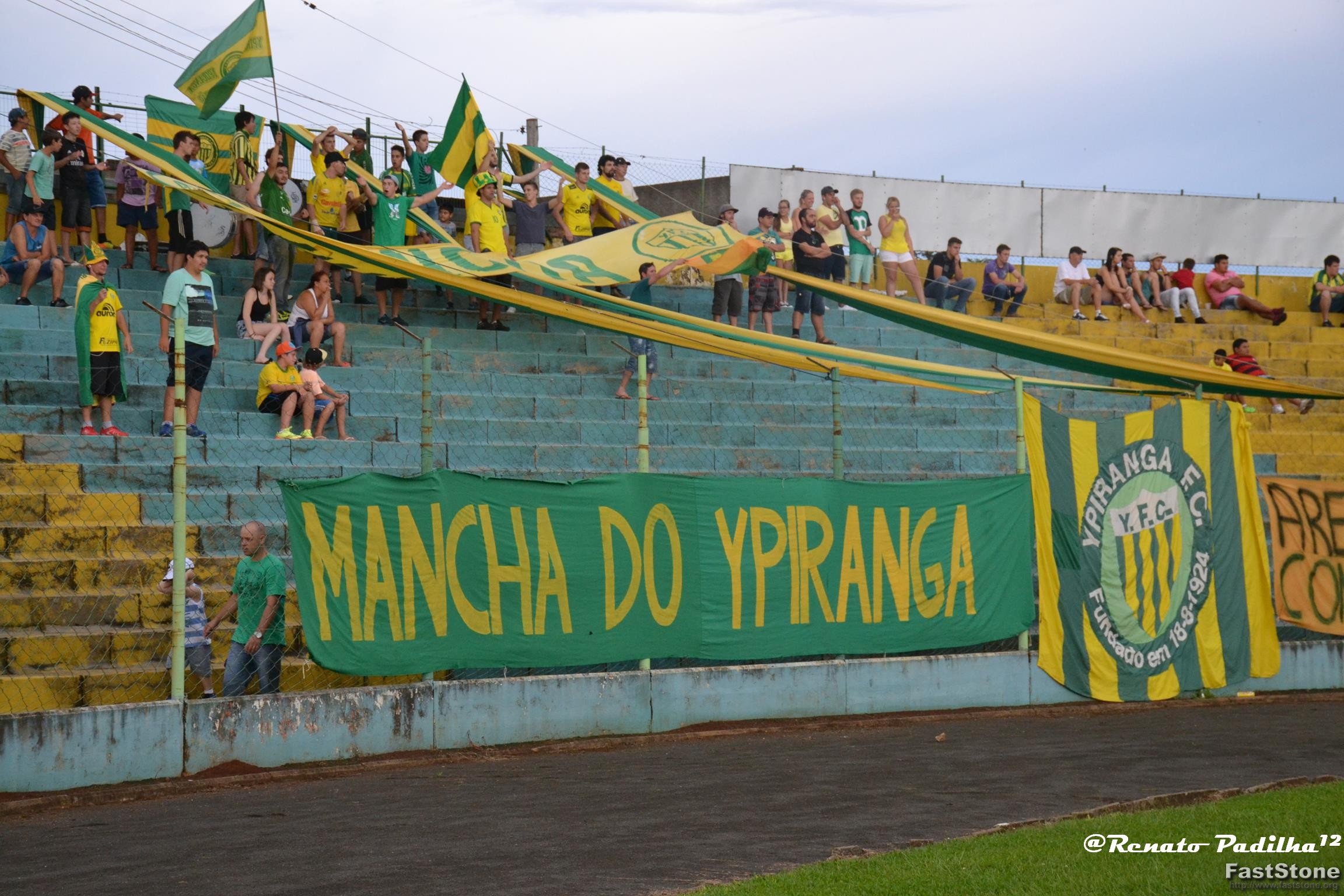 DSC_0314 (2) (Copy)